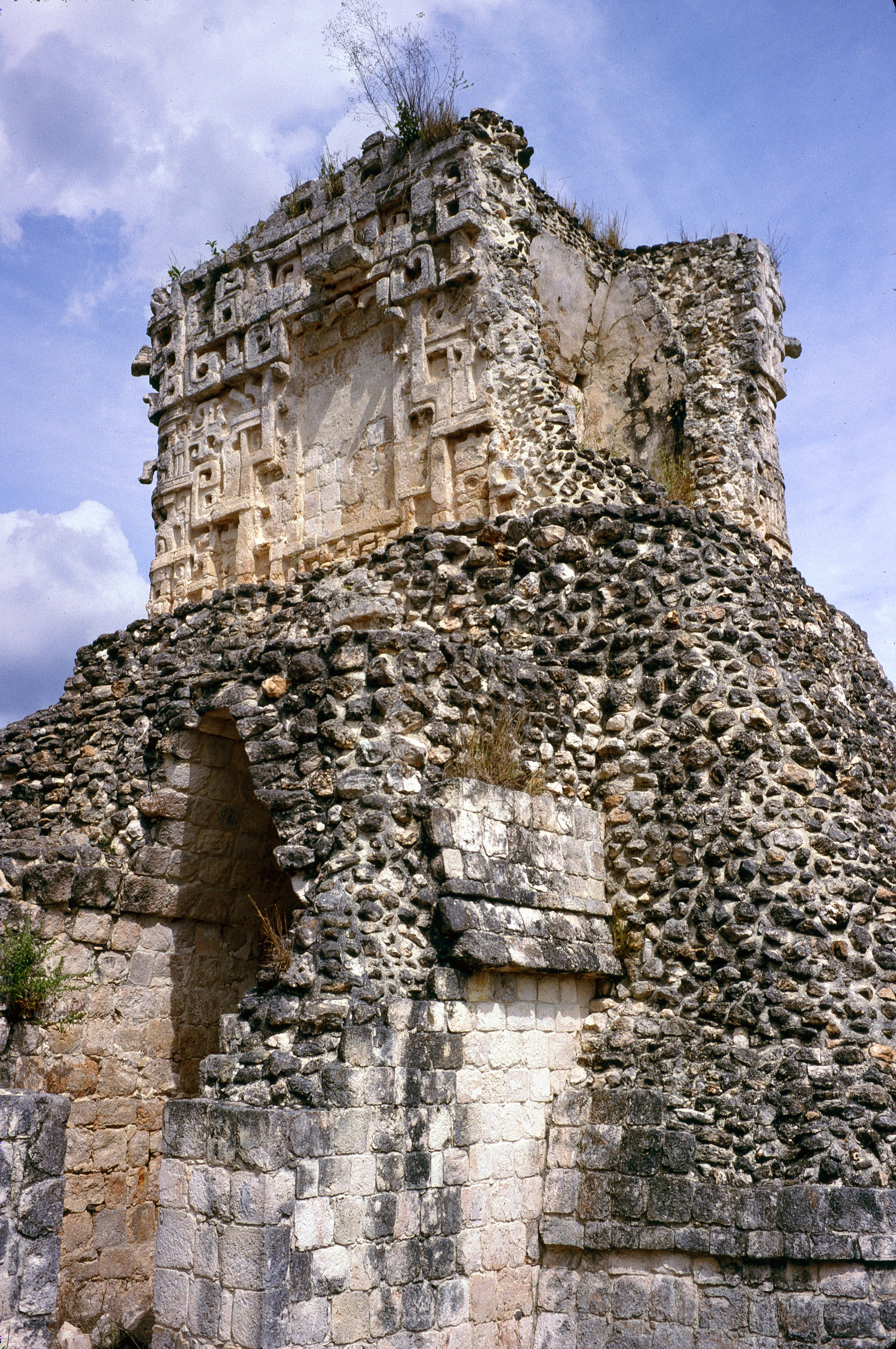 Dsibilnocac, Iturbido, Campeche, Mexico: eastern temple